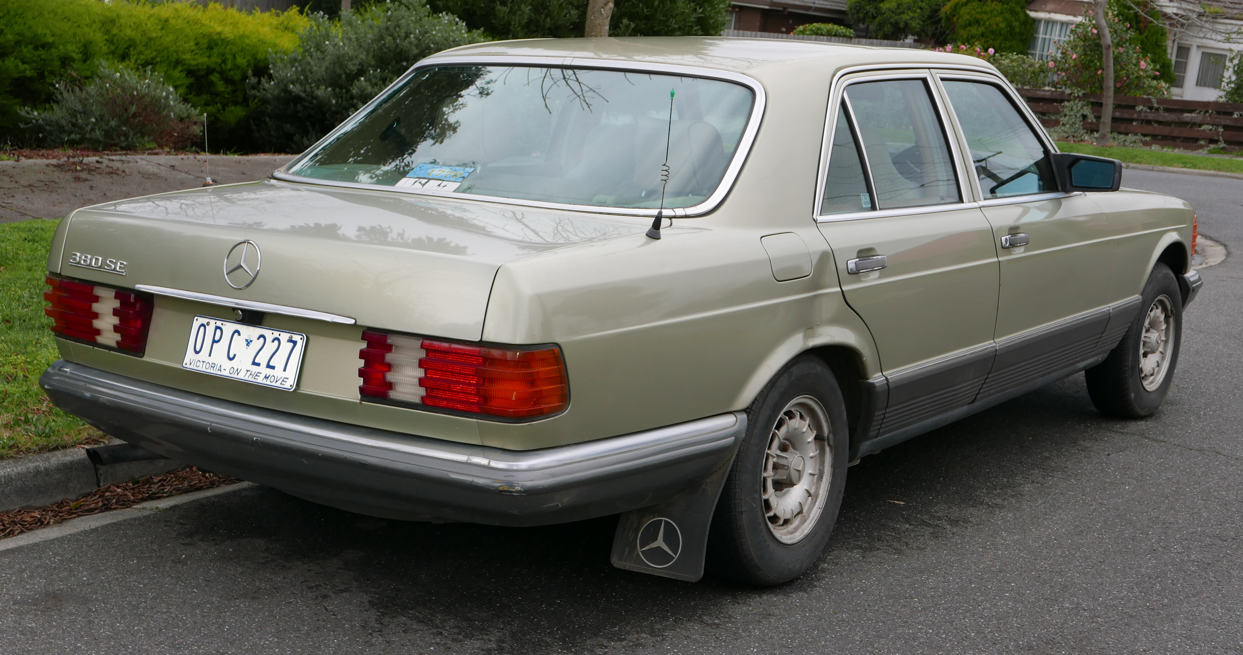 1984 Mercedes-Benz 380 SE (W 126) sedan. Photographed in Box Hill North, Victoria, Australia. Vehicle registration enquiry results Jurisdiction Victoria Registration OPC227 Chassis code Not available Engine code 11696322040853 Compliance date Not available Year of manufacture 1984